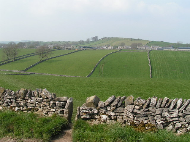 View towards Litton. Looking north towards Litton and Litton Edge